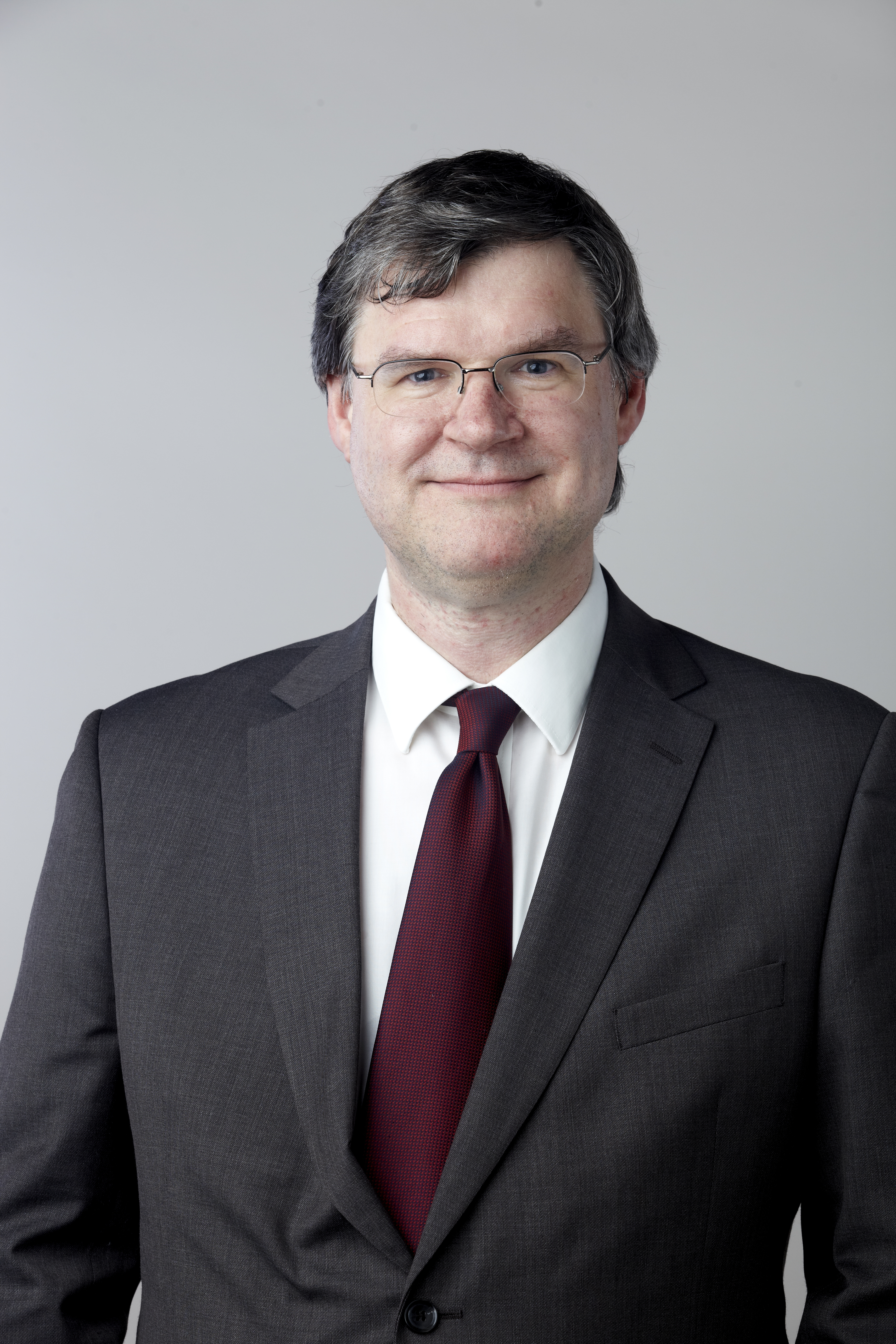 Professor David Charlton FRS, Royal Society Fellow elected 2014 Attribution: The Royal Society